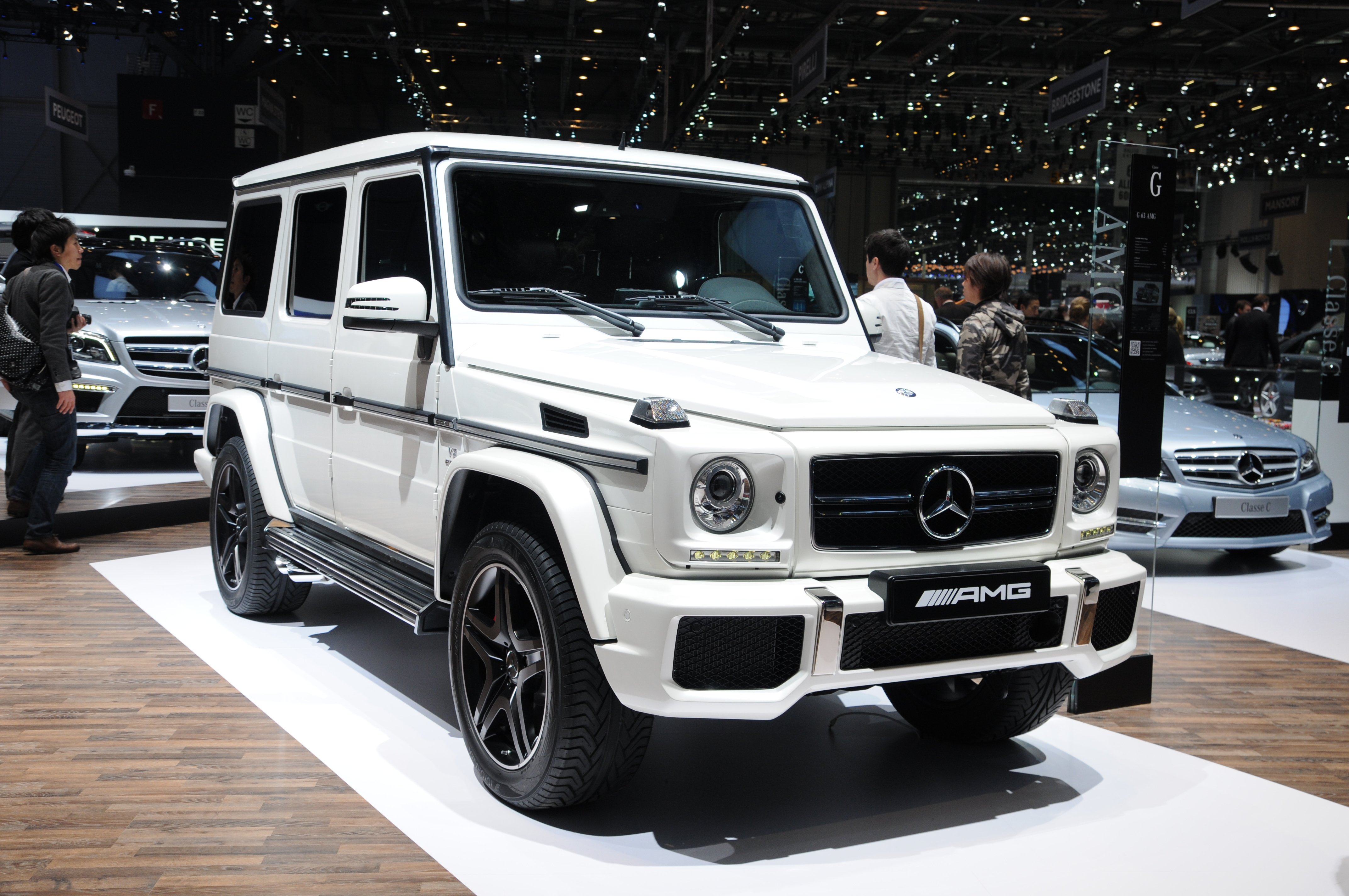 Geneva Motor Show 2013 (photos taken on the first press day)